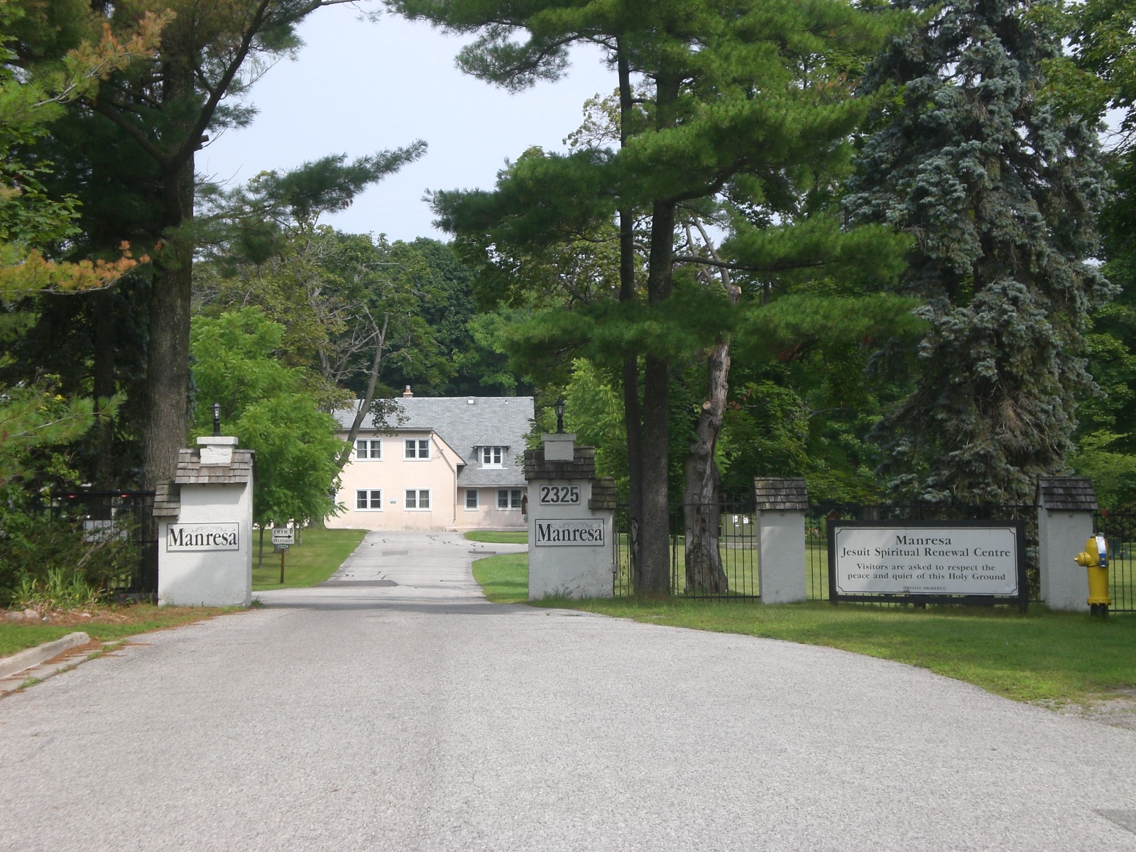 Photo of the entrance way to Manresa Jesuit Spirituality Renewal Centre, Pickering